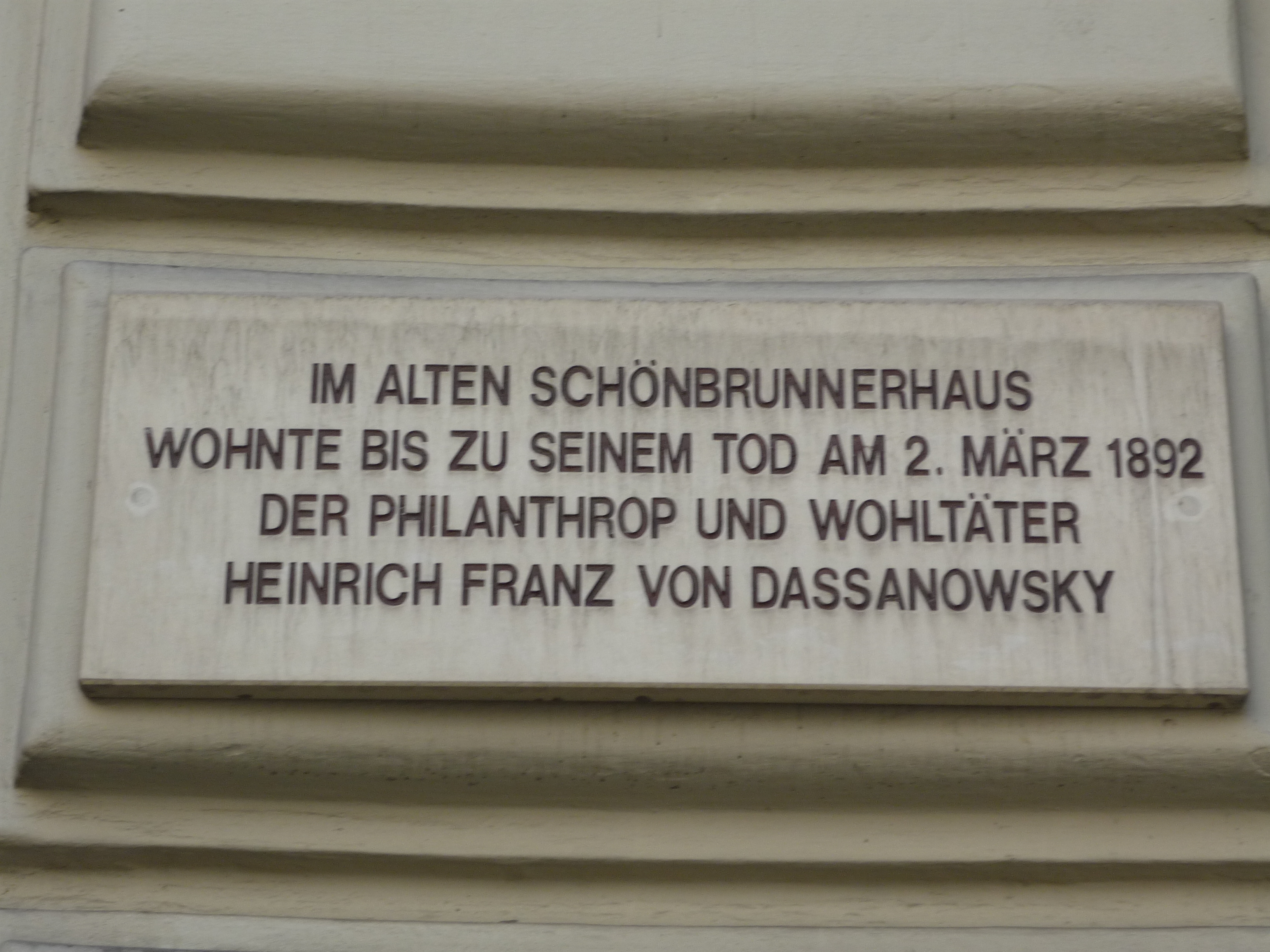 Plaque commemorating Heinrich Franz von Dassanowsky in Vienna